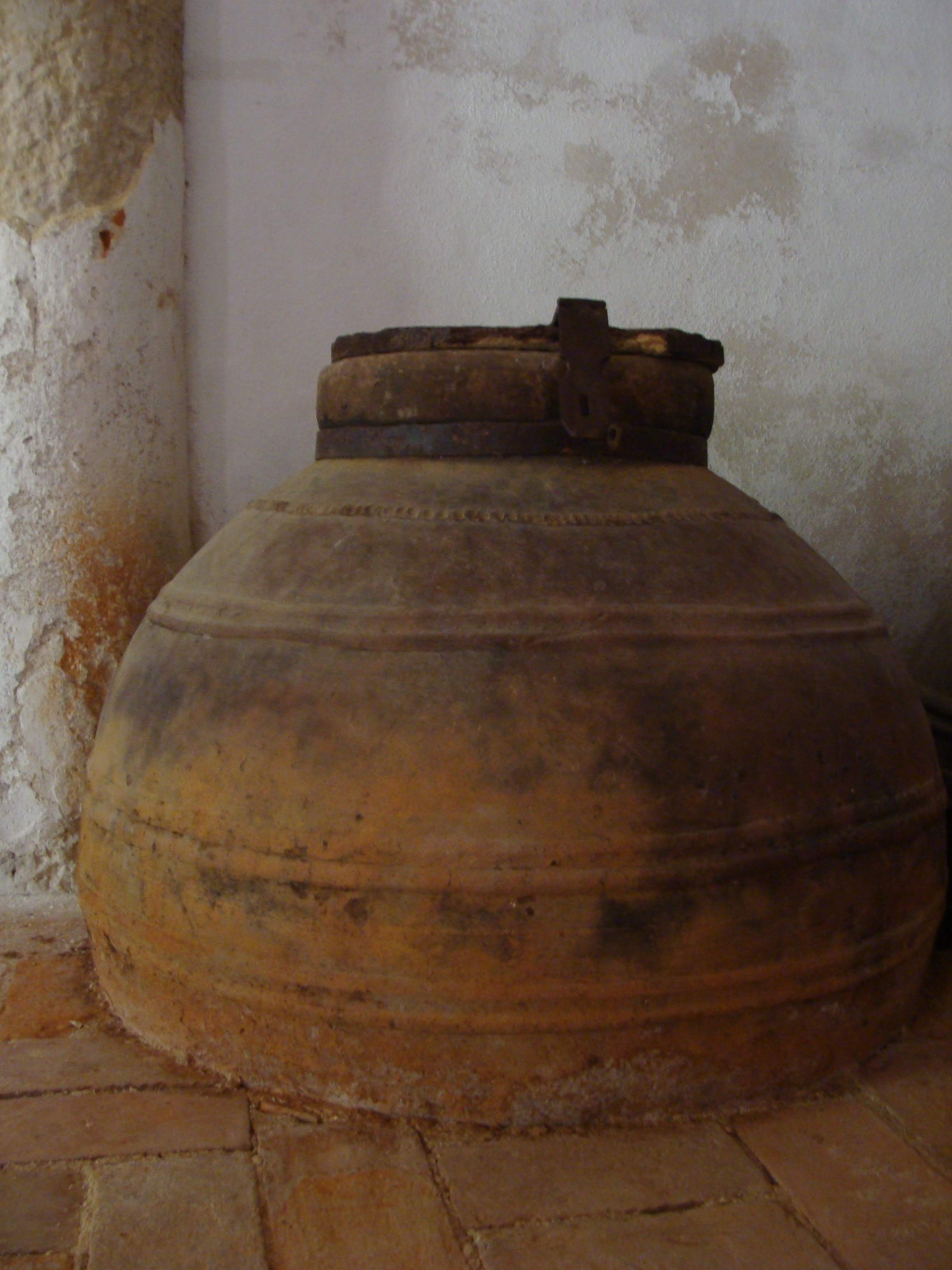 Adega de Azeite do Conde de Tomar Olive Oil Storage Room of the Count of Tomar ~ Convent of the Order of Christ "The Convent of the Order of Christ ("Convento de Cristo") is originally a Templar stronghold built in the 12th century. After the Order of the Knights Templar was dissolved in the 14th century, the Portuguese branch of the order was turned into the Knights of the Order of Christ, which supported Portugal's maritime discoveries of the 15th century." IN: Convento de Cristo, Tomar (UNESCO site): Tomar, Região Centro, Portugal 09/2012